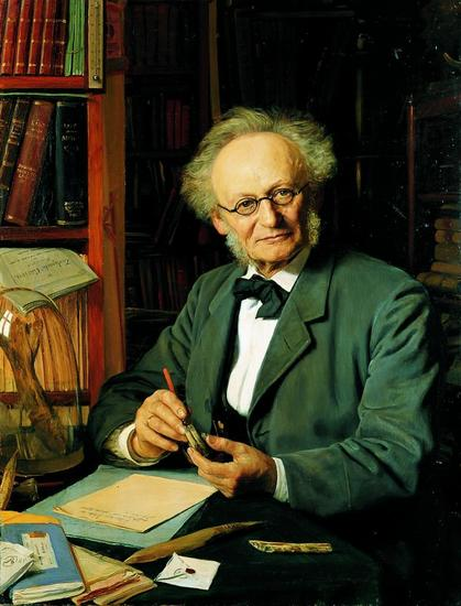 Portrait of Japetus Steenstrup, Danish zoologist